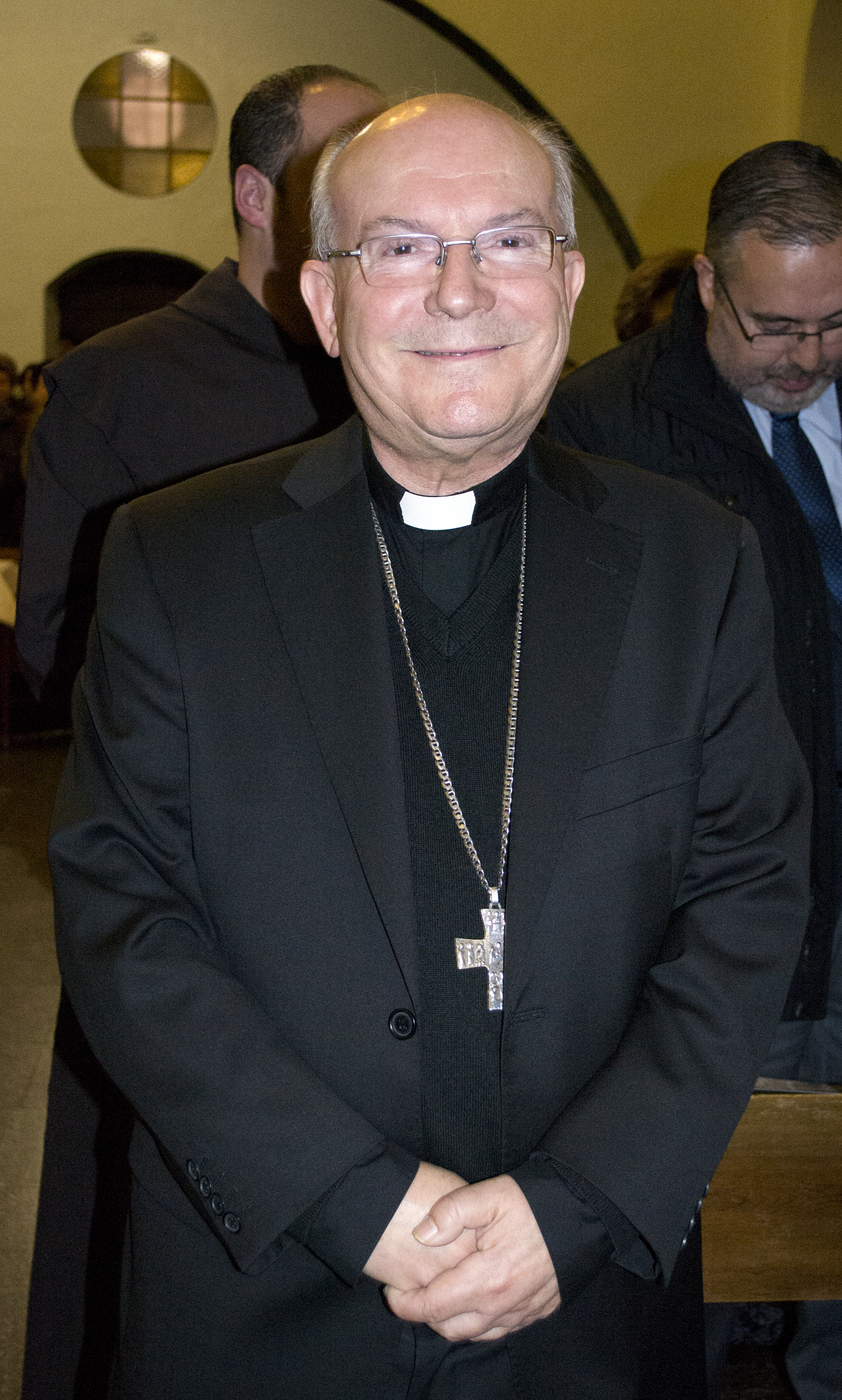 Amadeo Rodríguez Magro, bishop of Plasencia, Spain.